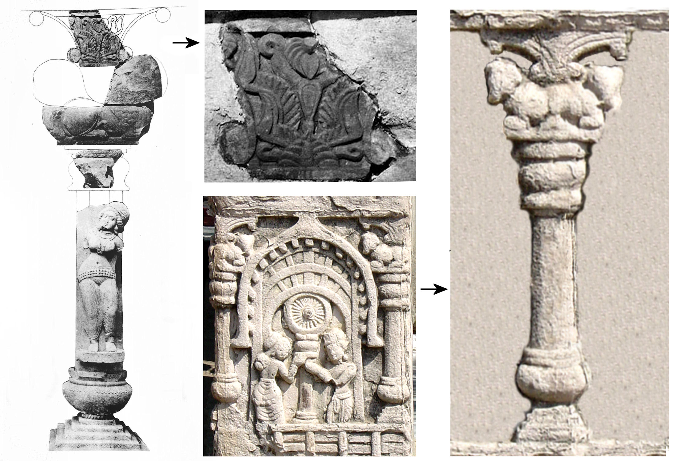 Bodh Gaya pillar reconstitution from archaeology and from artistic relief